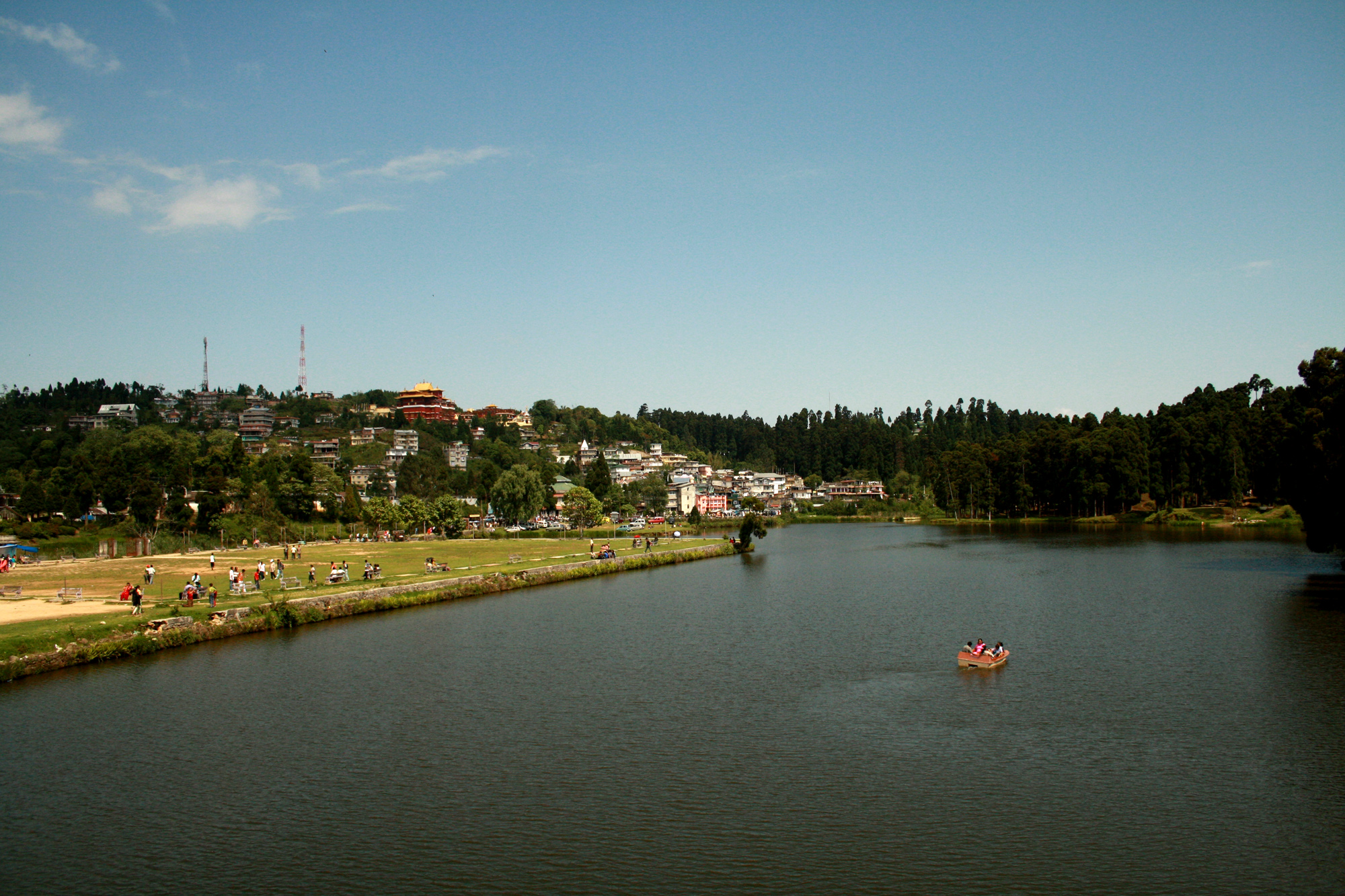 Visible Sumendu lake, Mirik, Dist. Darjeeling. Mirik is a small hilly settlement surrounded by numerous Darjeeling Tea gardens. It's hosts a magnificent lake which boasts of having variety fish. It is thronged by tourists during the tourist season where they can do a boat ride, do horse riding or simply take a stroll around the lake. There are numerous eateries and hotels for tourists. The climate is warmer than Darjeeling, it is very pleasant!